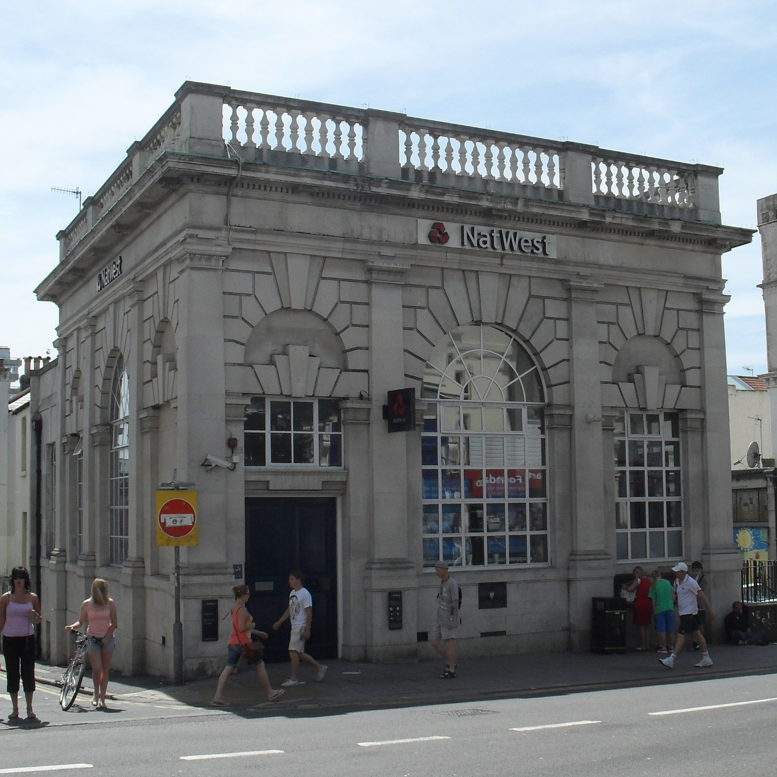 National Westminster Bank branch, Western Road, Brighton, City of Brighton and Hove, England. Designed in 1905 by T.B. Whinney. Listed at Grade II by English Heritage (IoE Code 481445)